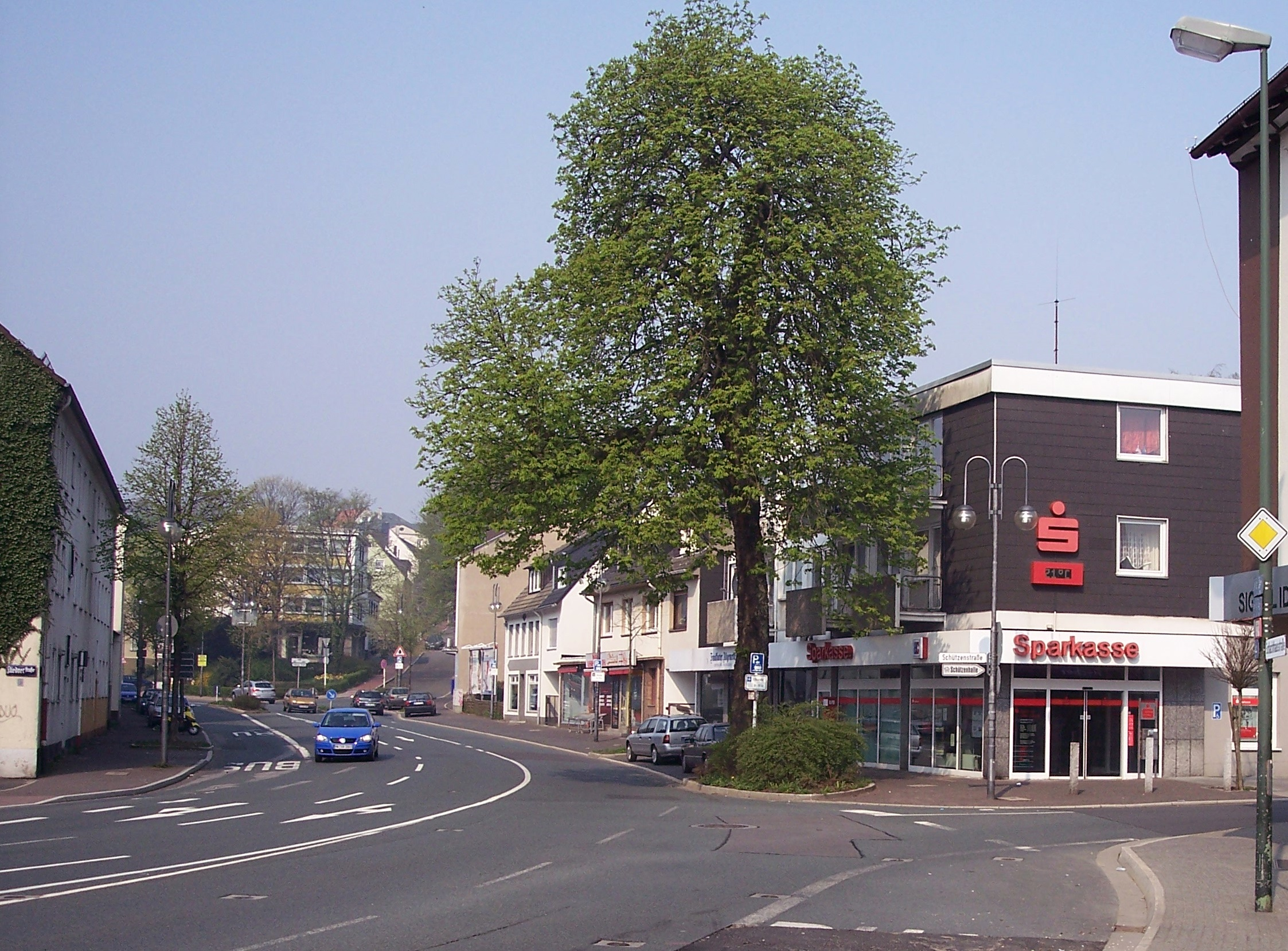 Lüdenscheid-Bräucken